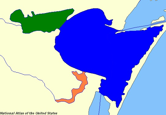 modified from